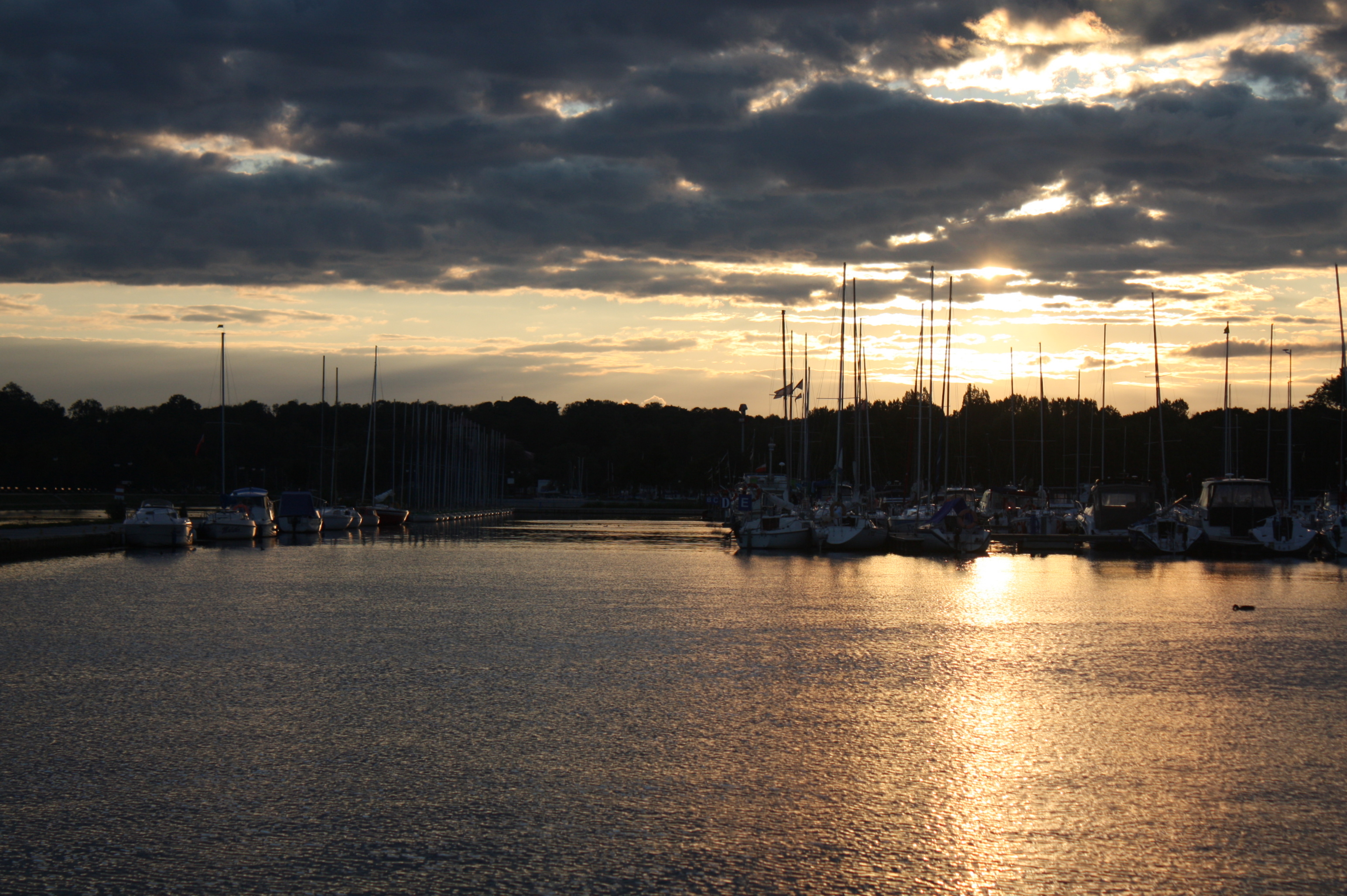 This photo of Warmian-Masurian Voivodeship was taken during Wikiexpedition 2012 set up by Wikimedia Polska Association. You can see all photographs in category Wikiekspedycja 2012. The making of this document was supported by Wikimedia Polska.